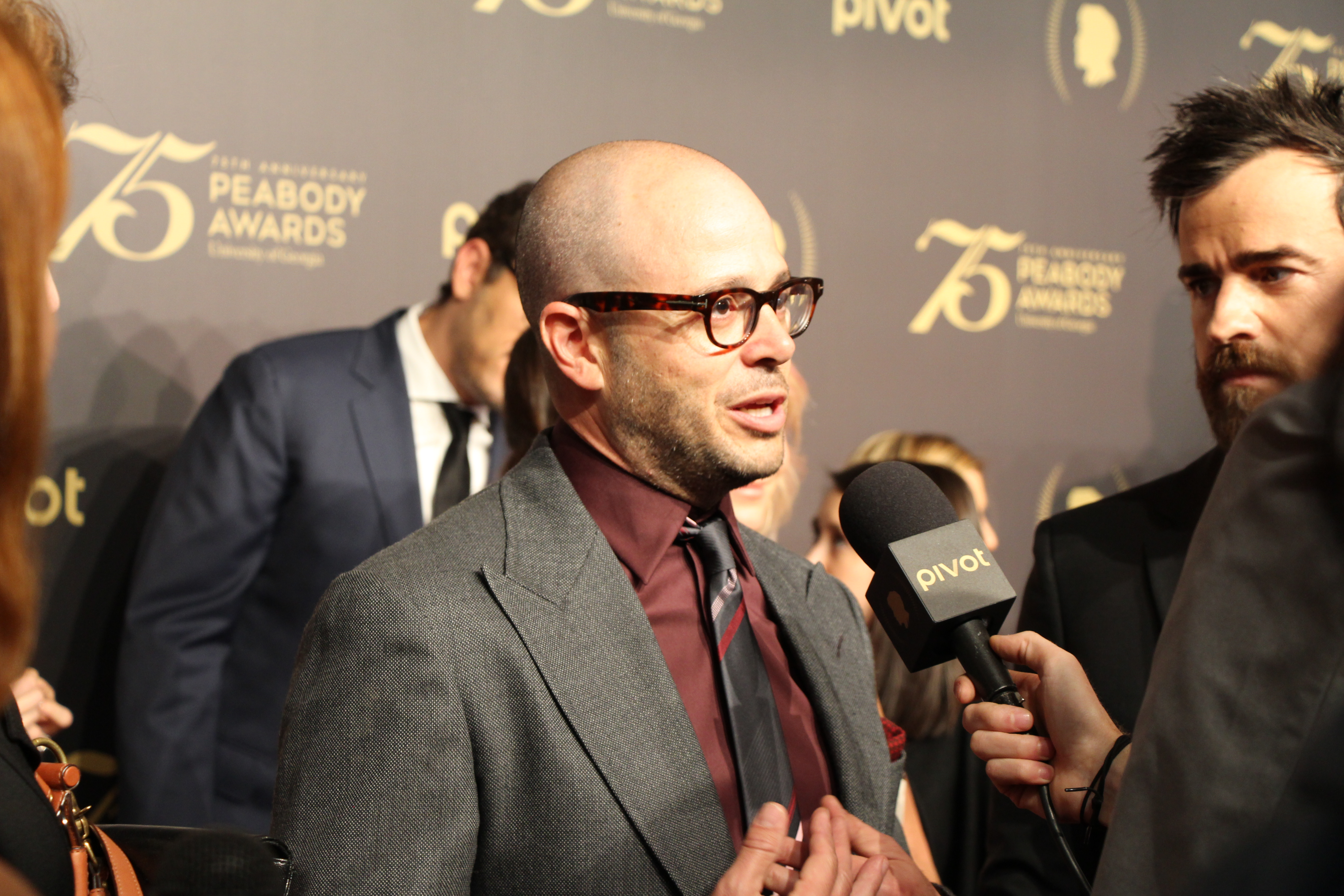 This photo includes Damon Lindelof, the Co-Creator, Executive Producer and Showrunner of "The Leftovers." (Photo/Sarah E. Freeman/Grady College, in New York City, Georgia, on Saturday, May 21, 2016)